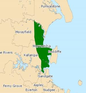 Electoral district of Murrumba (Queensland, Australia)